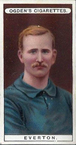 Everton football card by Ogden's